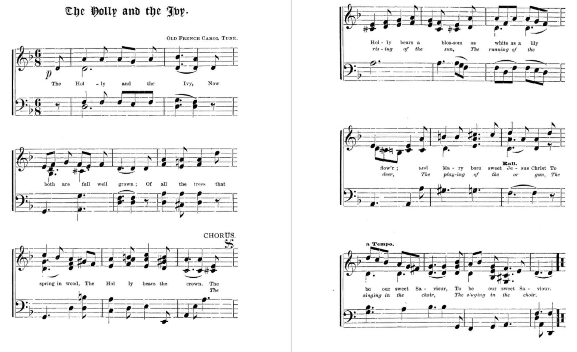 Music for the carol "The Holly and the Ivy" from an 1868 publication.